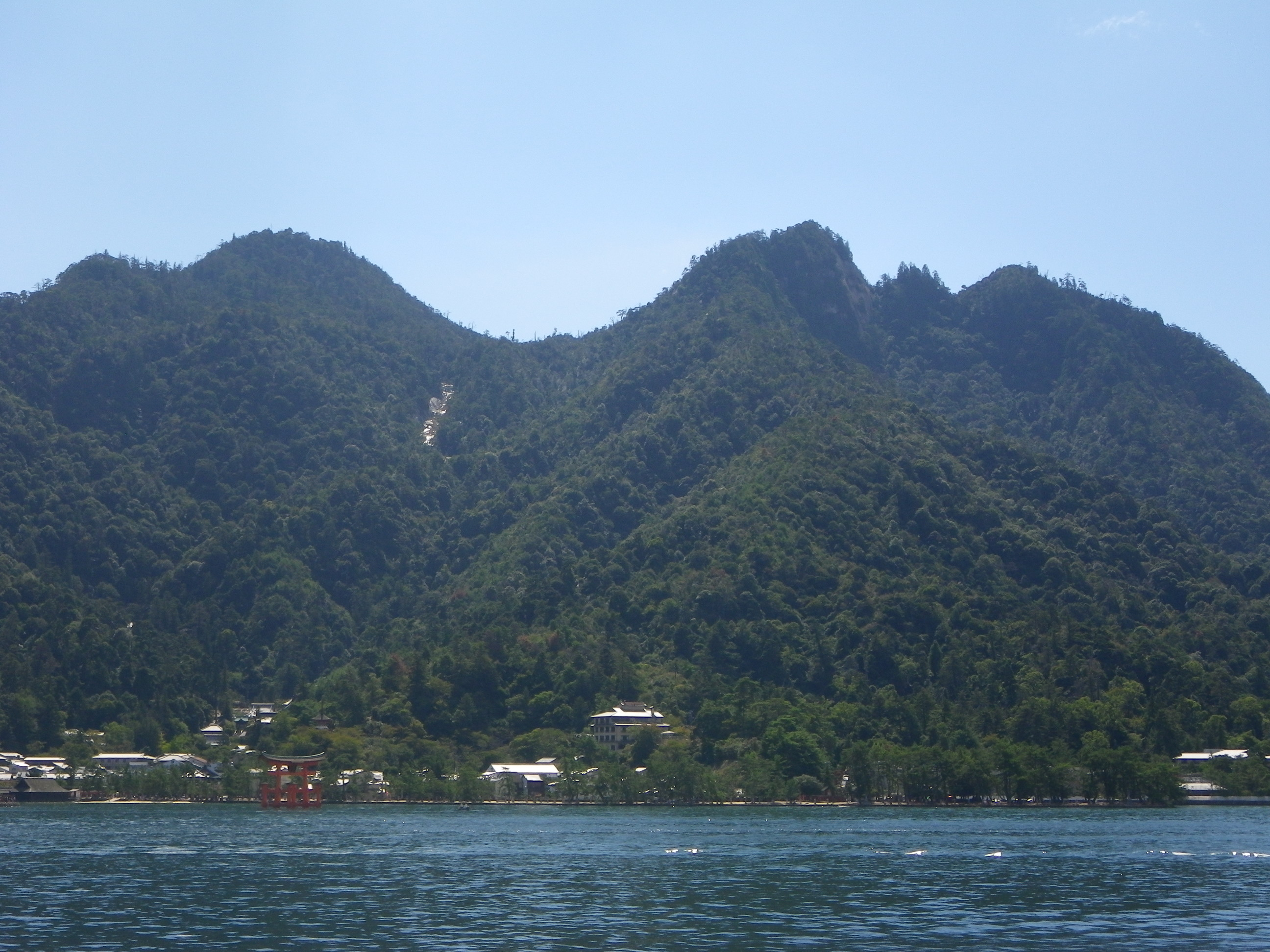 Mt.Misen